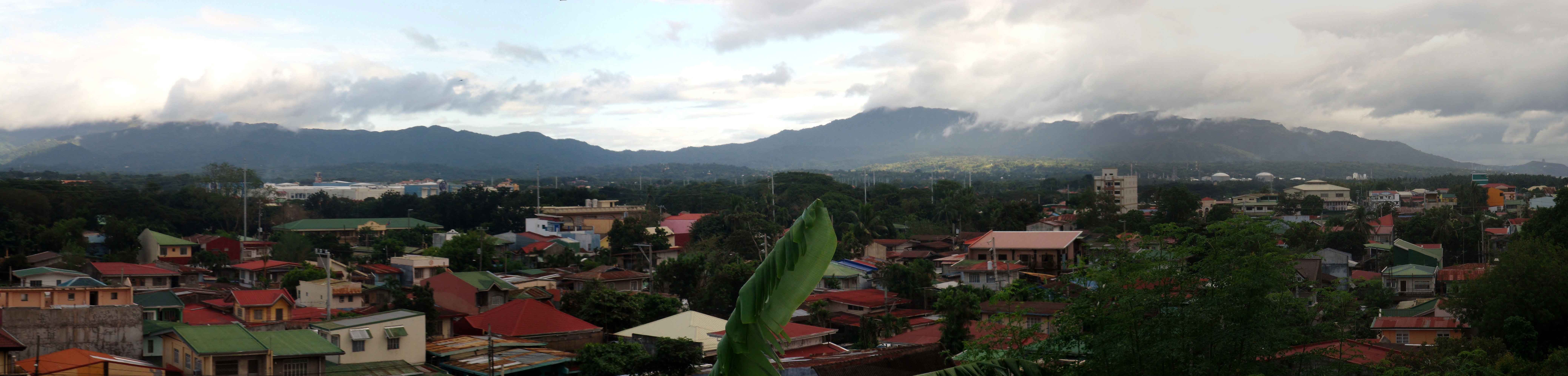 Panoramic view of Batangas City, seen from the Batangas City Catholic Cemetery